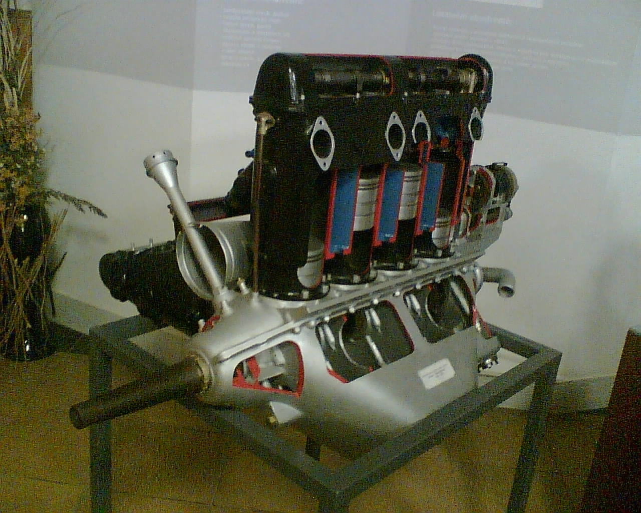 Section of aircraft engine HS 8FB, in entry hall on hight scholl VOŠ a SOŠT in Litomyšl.